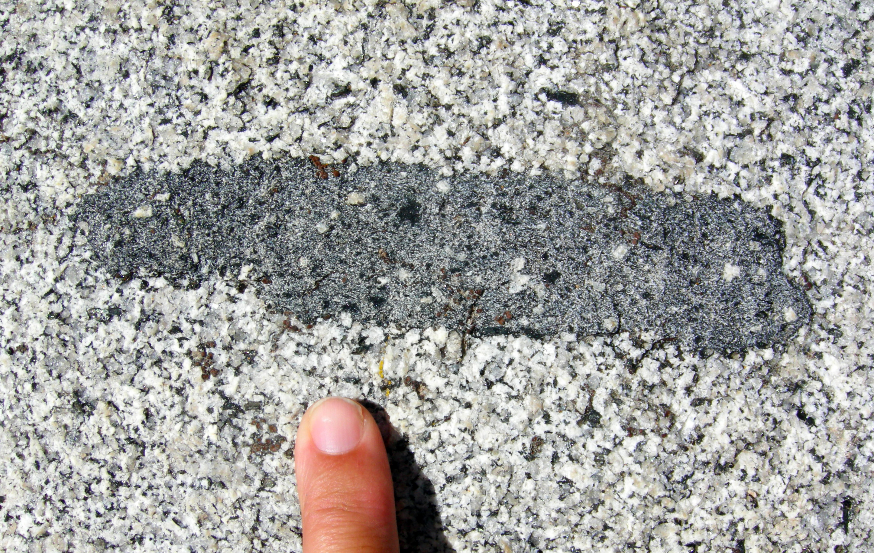 Gabbro as a xenolith in a granite, eastern Sierra Nevada, Rock Creek Canyon, California.